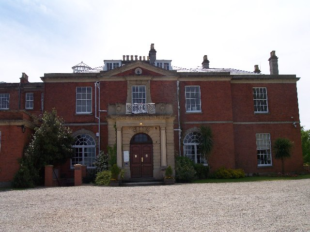 Hartpury College. North facing frontage. Once a country seat now an agricultural college